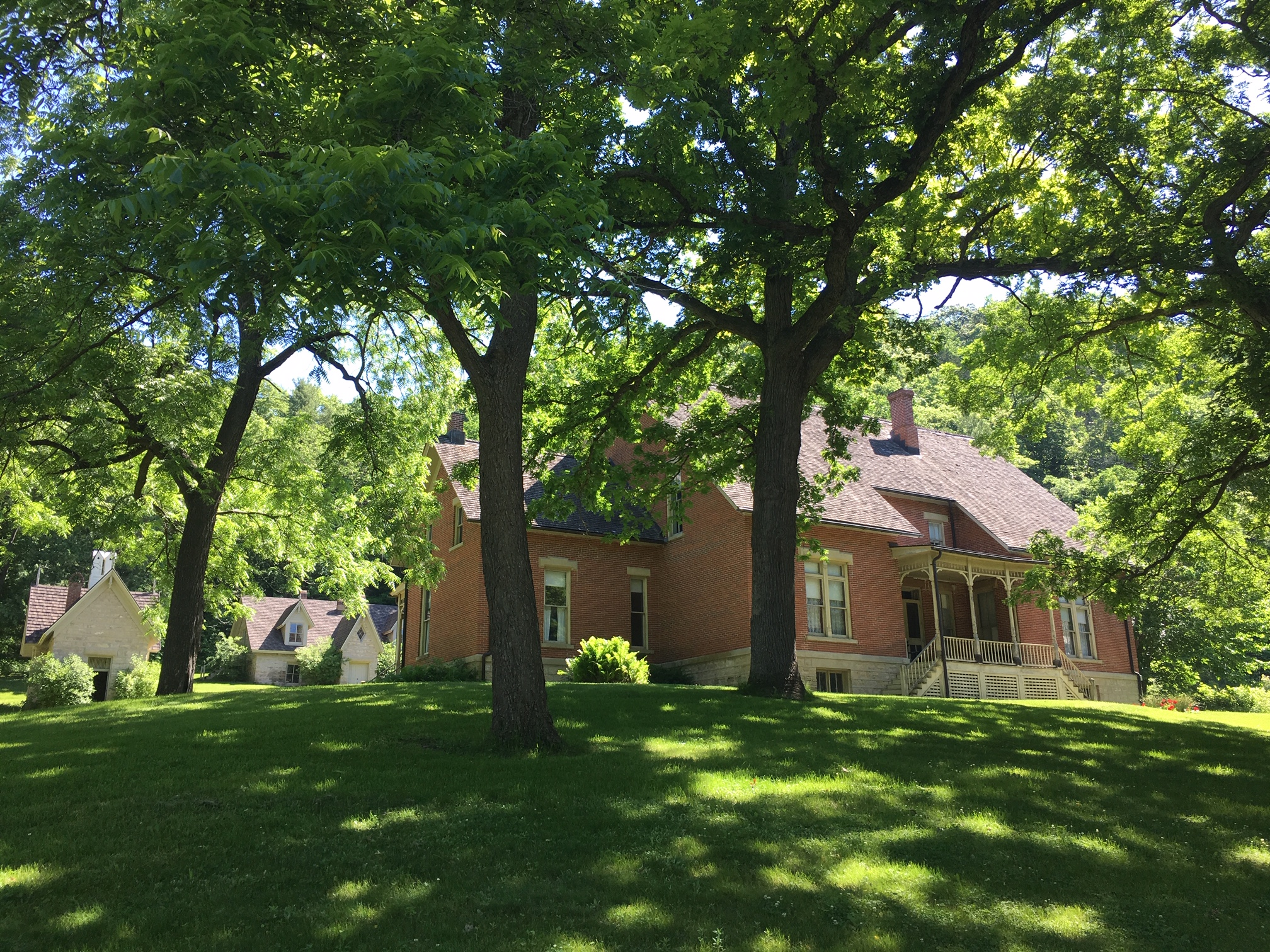 Reconstructed home of Nelson Dewey, Wisconsin's first governor at Stonefield Historic Site, Cassville, Wisconsin in 2019.